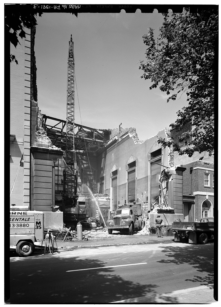 The Bank of America, chartered in 1781, was the nation's first commercial bank. In 1929, it merged with the Pennsylvania Company for Banking and Trusts.